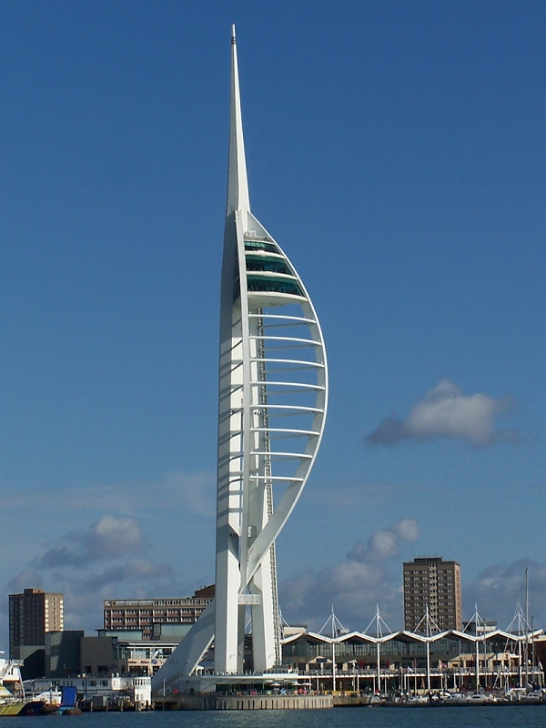 The Spinnaker Tower in Portsmouth